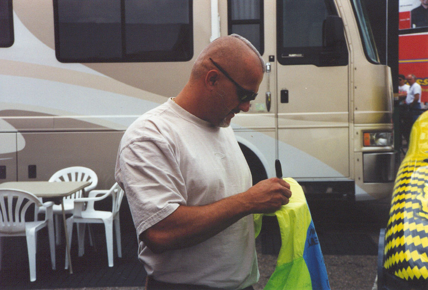 NHRA driver Scotty Cannon, Denver 1999Scotty Cannon